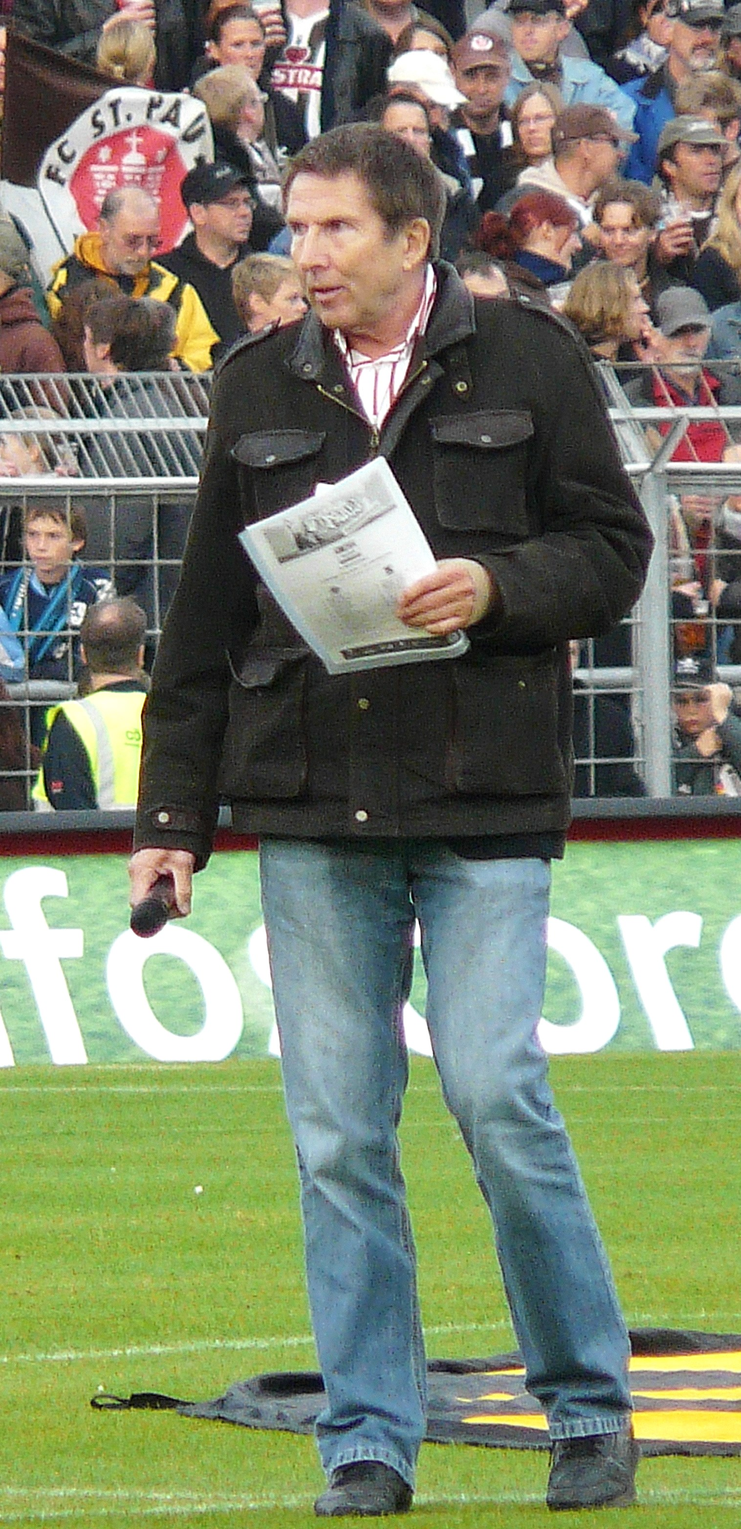 Rainer Wulff Stadium Speaker by FC St. Pauli